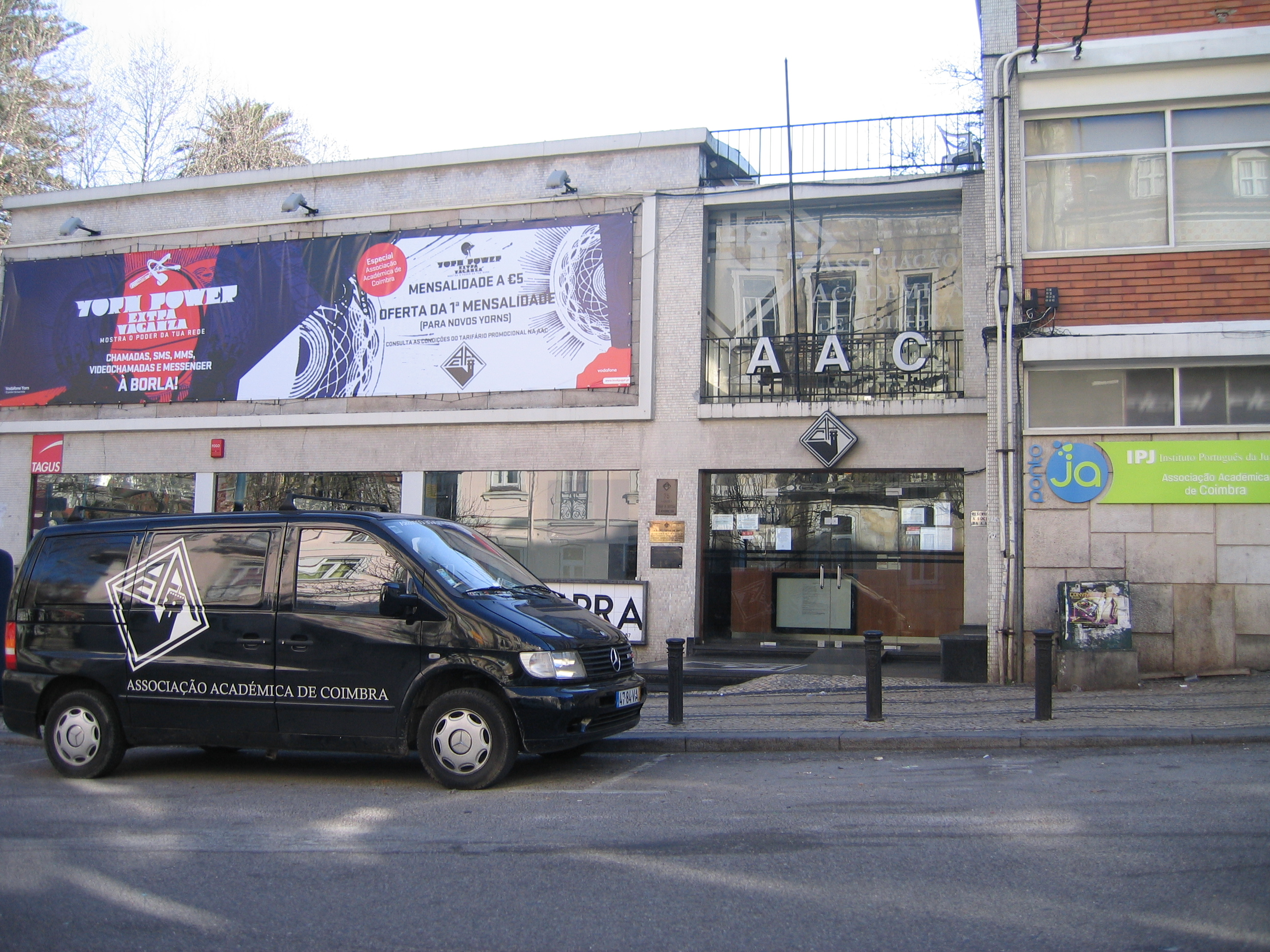 The main entrance of the Associação Académica de Coimbra (University of Coimbra's Academic Association/Students' Union), in the Rua Padre António Vieira street, Coimbra, Portugal. (December 2008)